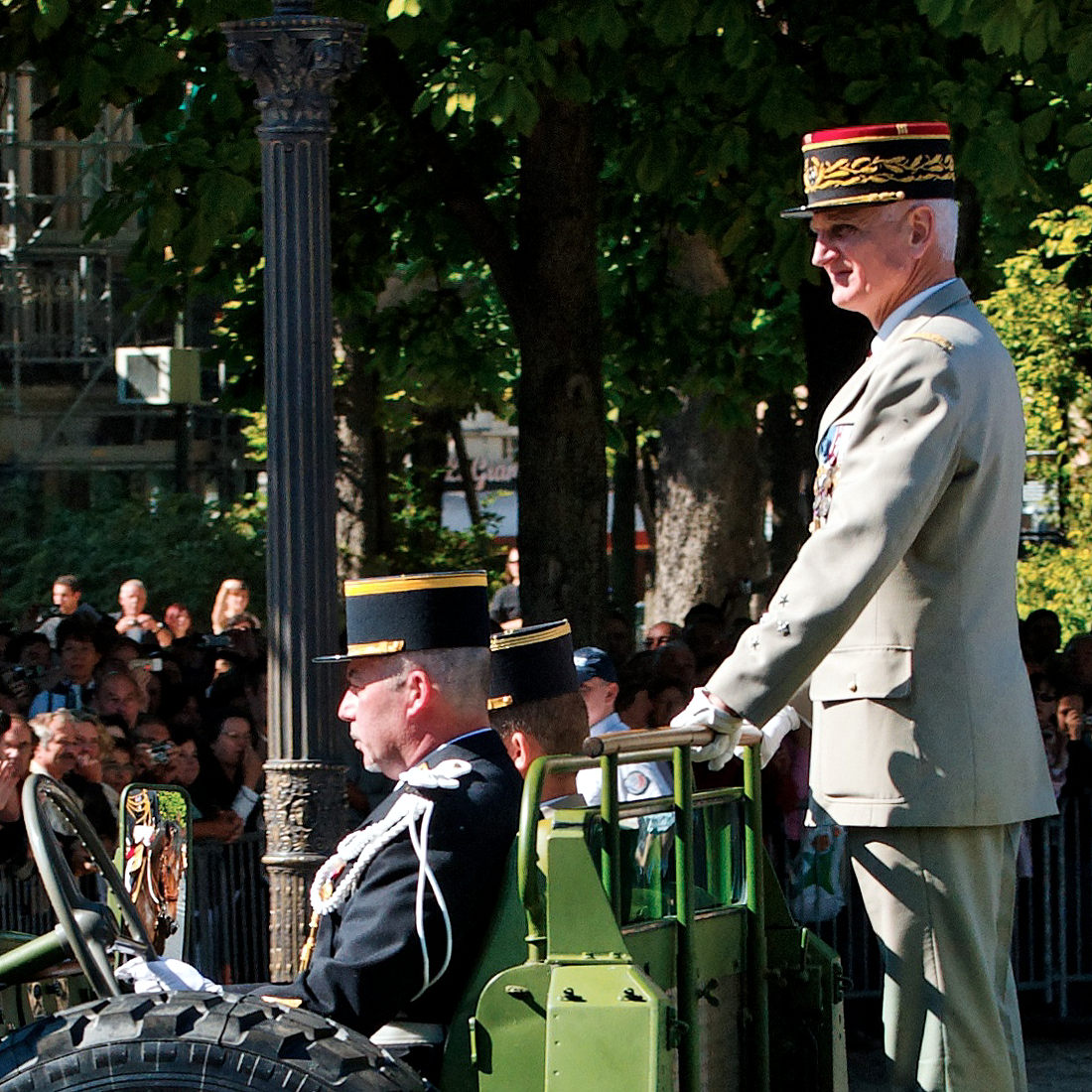 General Bruno Dary, military governor of Paris, reviewing troops during the Bastille Day 2008 military parade on the Champs-Élysées, Paris.